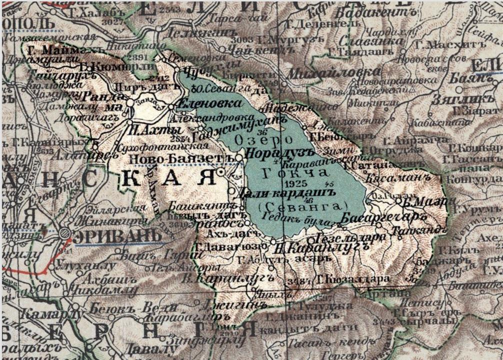 Novobayazet uyezd map